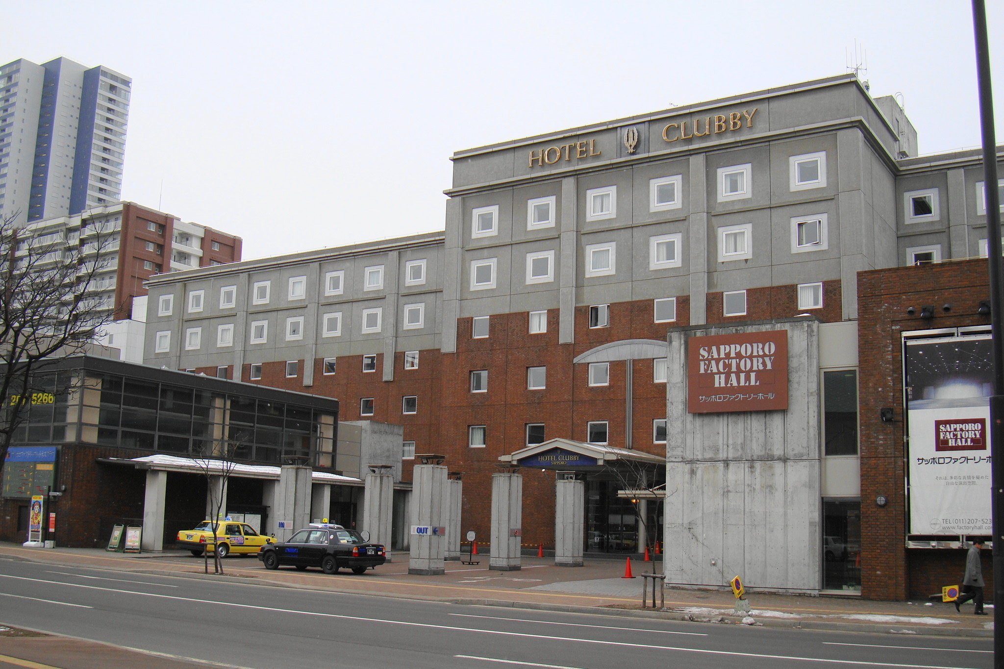 Sapporo Factory West